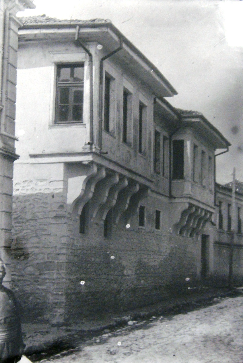 The building of the Turkish school in Bitola. 1918-1941 This media file is produced by Wikipedian in Residence in Category:Wikipedian in Residence at DARM in 2016.